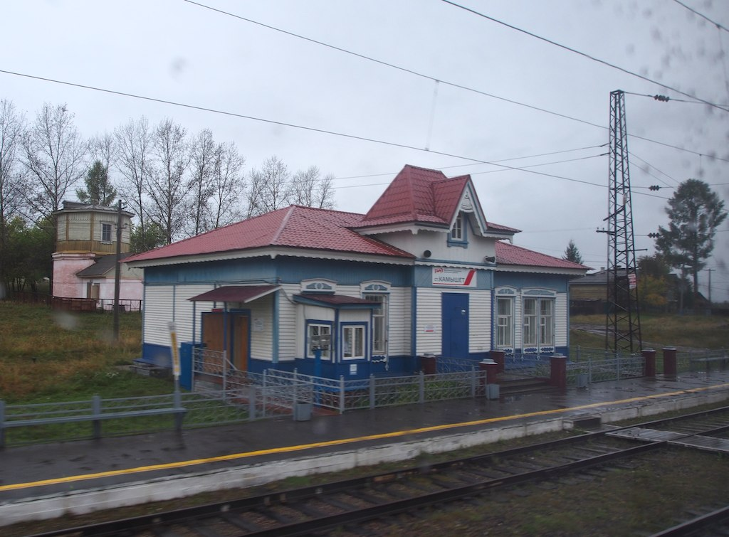 The small station at Kamyschet, Russia